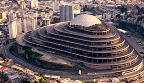 El Helicoide, sede de la policia de inteligencia venezolana DISIP, antiguo proyecto de centro comercial